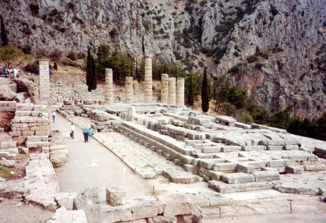 Photo of temple of Apollo at Delphi